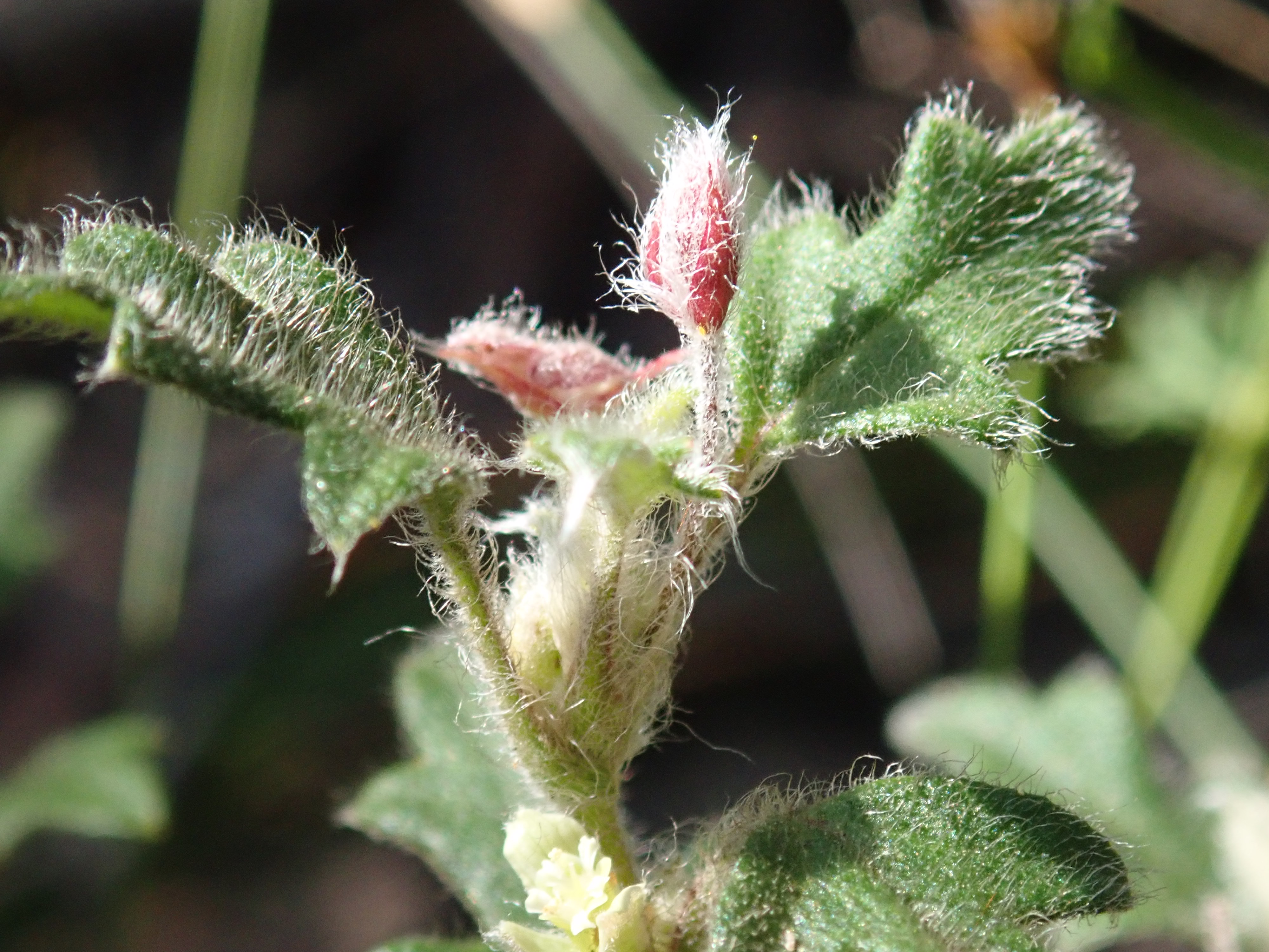 Xanthosia pilosa, Girrakool Loop, Brisbane Water NP with Ruth, 20/10/2019